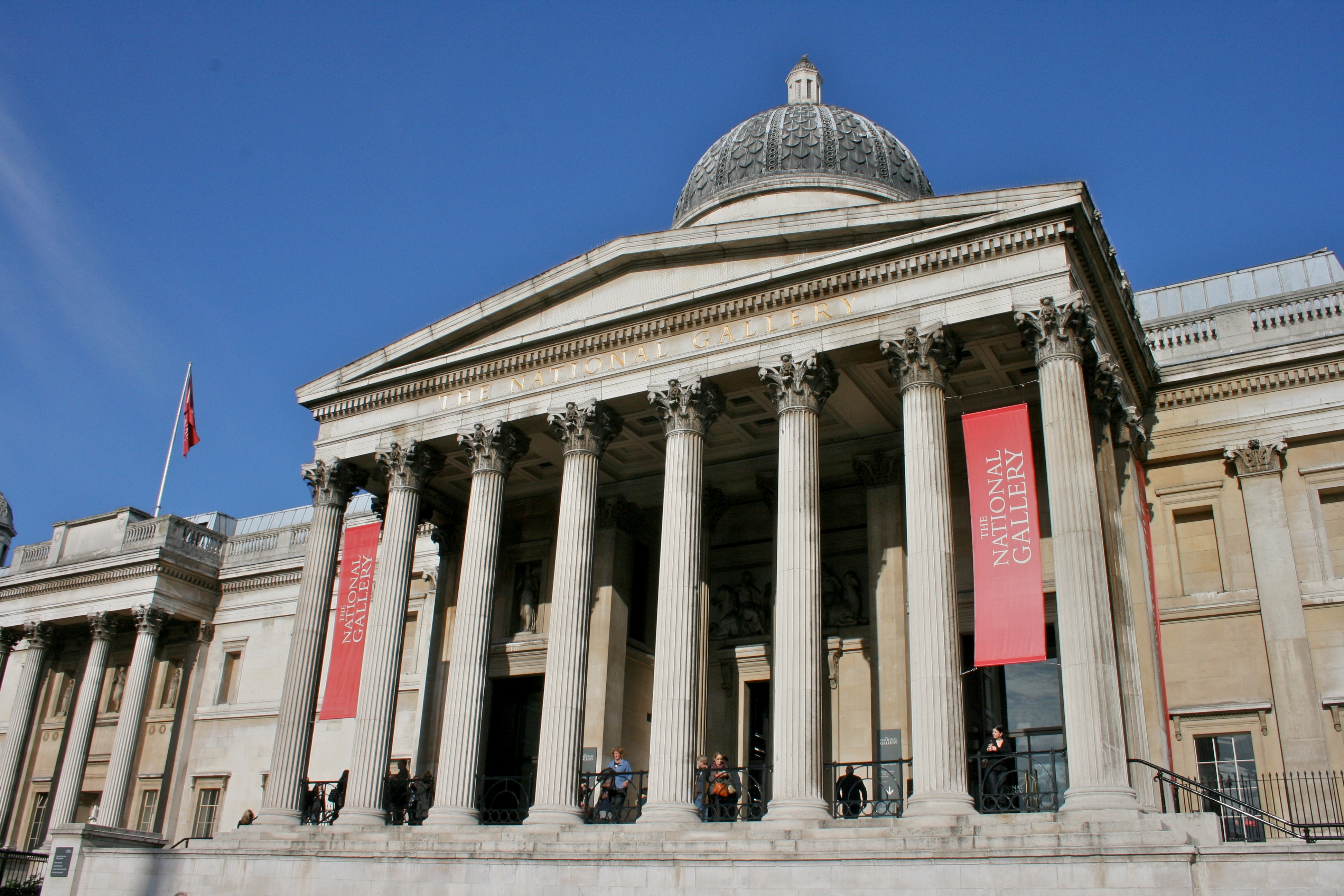 The National Gallery, London.